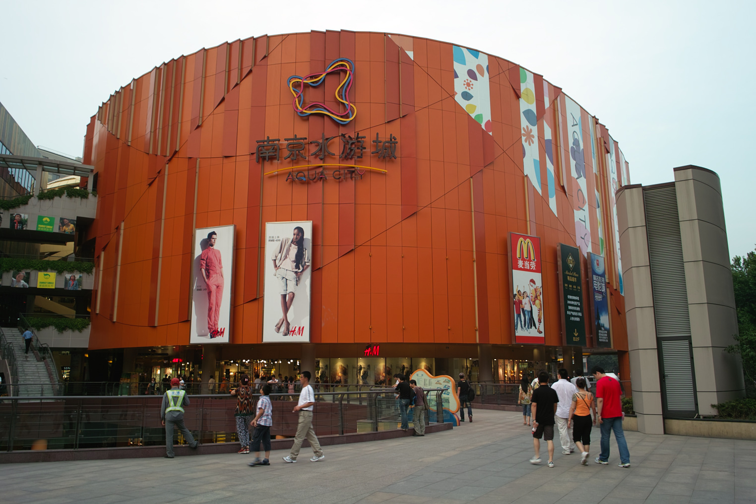 Shuiyou cheng, nanjing